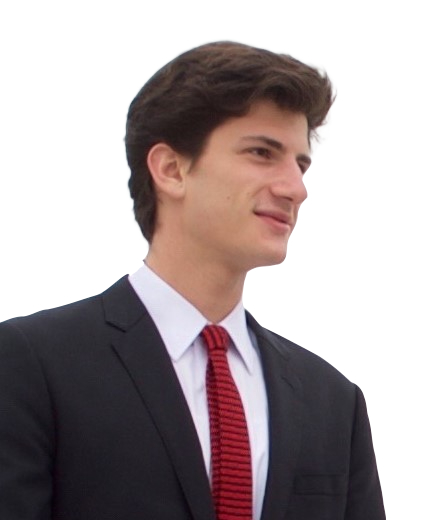 A cropped version of this image, U.S. Ambassador to Japan Caroline Kennedy, flanked by her son, Jack Kennedy Schlossberg, greets U.S. Secretary of State John Kerry after he arrived at the Iwakuni Marine Corps Air Station, Japan, on April 10, 2016, to attend a G-7 Ministerial Meeting in nearby Hiroshima.